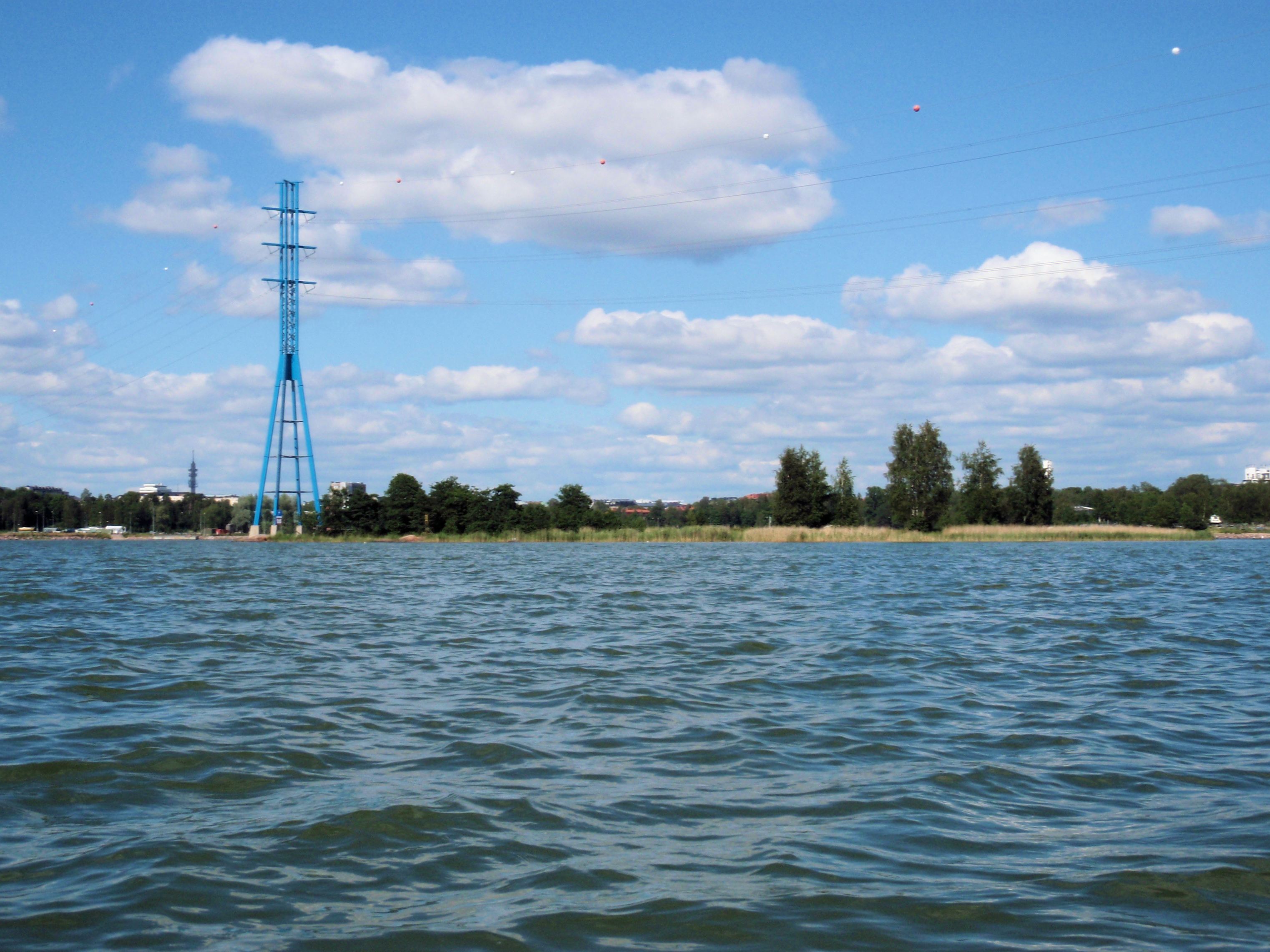 Small island Taivalluoto in Helsinki.Utility pole Antin askeleet (Steps of Antti) by Antti Nurmesniemi